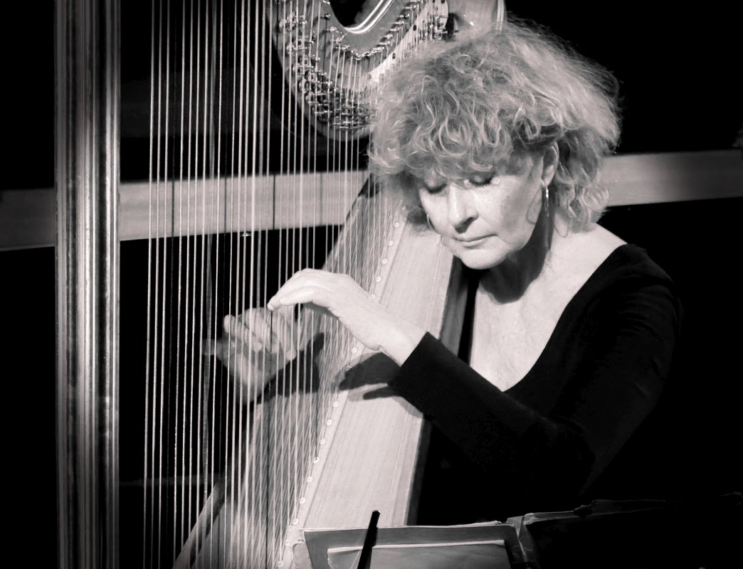 Marielle Nordmann harpiste de concert